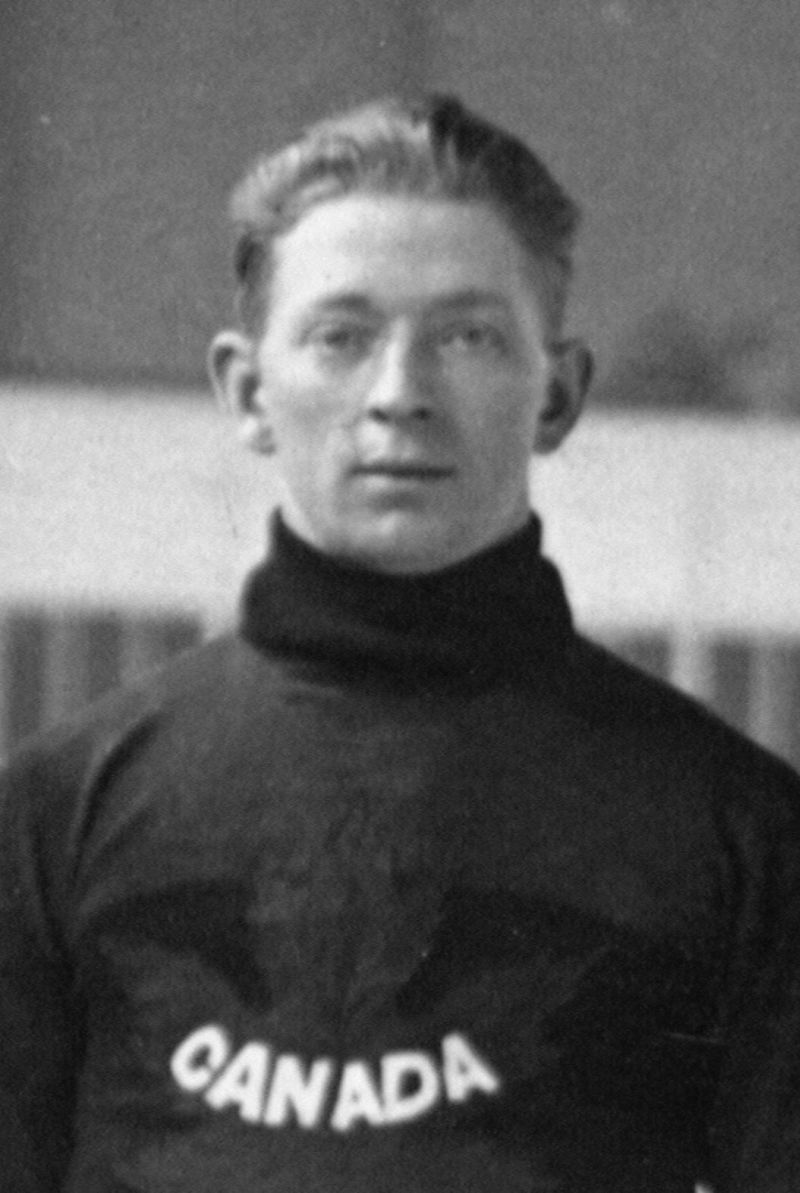 Ice hockey player Walter "Wally" Byron of the Winnipeg Falcons representing the Canadian national ice hockey team at the 1920 Summer Olympics in Antwerp, Belgium. The picture is a crop out of a larger team photo taken inside the ice rink Palais de Glace d'Anvers. The ice hockey tournament at the 1920 summer Olympics took place between April 23 and April 29. The canadian team won gold medals at the games.